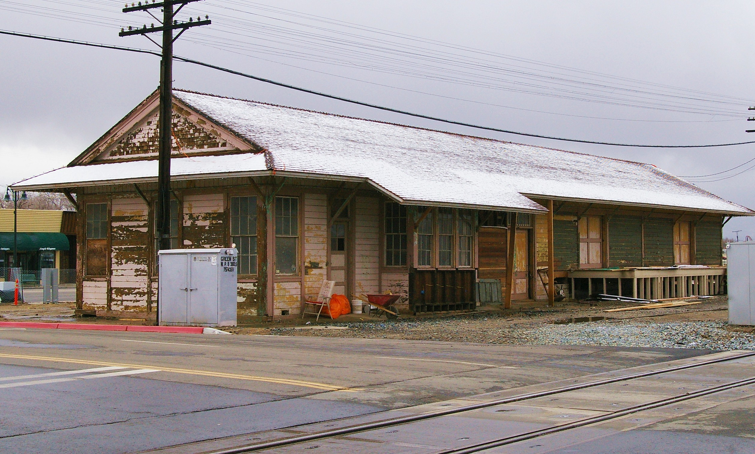 The former Tehachapi station building in January 2008. It burned on June 13, 2008